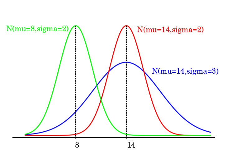 This plot was created with Gnuplot. Created with Gnuplot in wxmaxima. plot2d( [(1/(3*sqrt(2*3.1416)))*exp(-0.5*((x-14)/4)^2), (1/(2*sqrt(2*3.1416)))*exp(-0.5*((x-14)/2)^2), (1/(2*sqrt(2*3.1416)))*exp(-0.5*((x-8)/2)^2)],[x,2,24],[style, [lines,3 , [xlabel," "], [ylabel," "], [box,false], [axes, false], [legend,false])